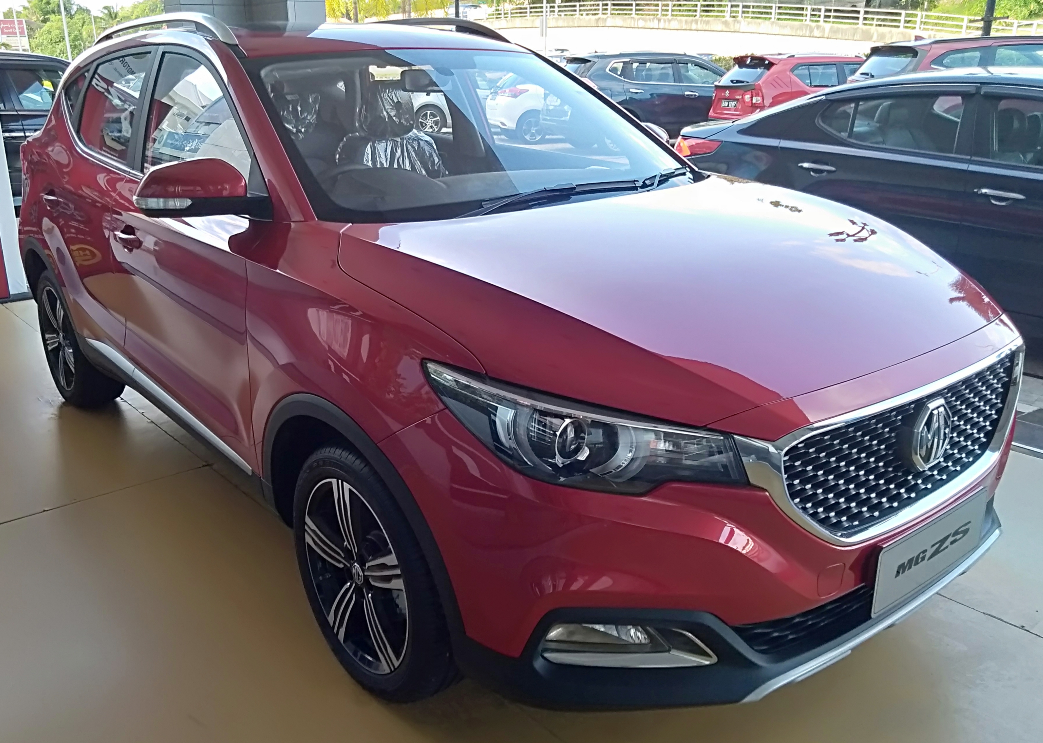 2020 MG ZS SUV 1.5 COM with Diamond Red Premium Metallic color front view. Photographed in Hua Ho Tanjung Bunut, Brunei.